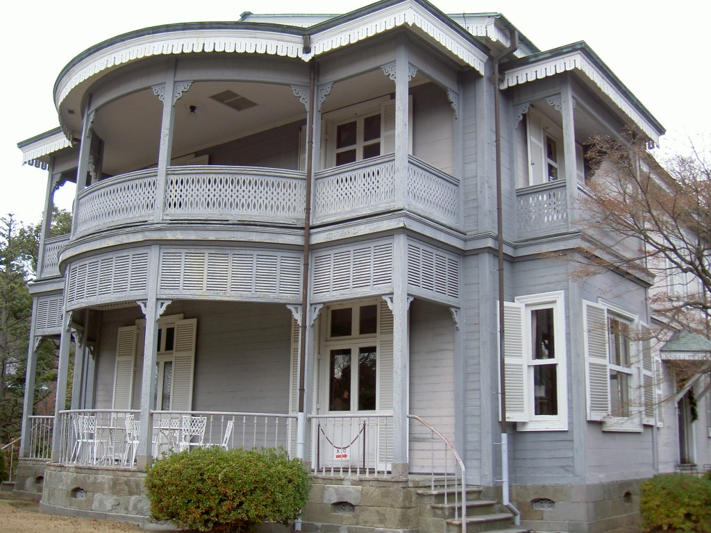 Reception Hall of Tsugumichi Saigos Residence, located in the Meiji Mura Museum